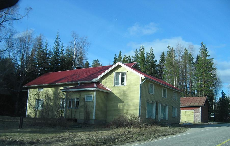 Juntunen's former village grocery store building in Sanginkylä, Utajärvi, Finland